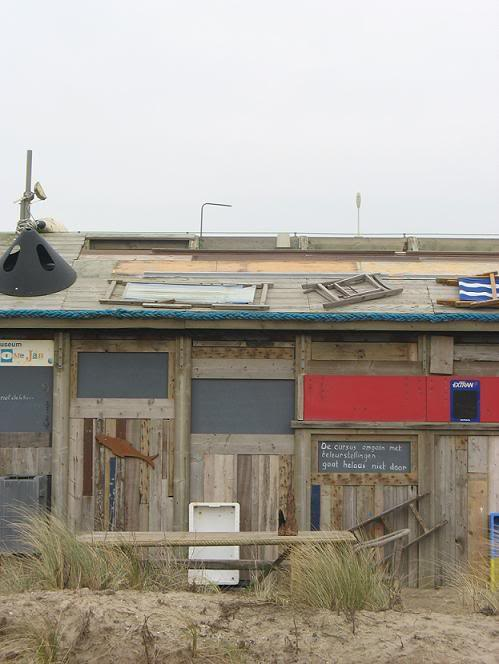 Beachcomber museum in Kijkduin. The notice says 'The course dealing with disappointments will unfortunately not continue'